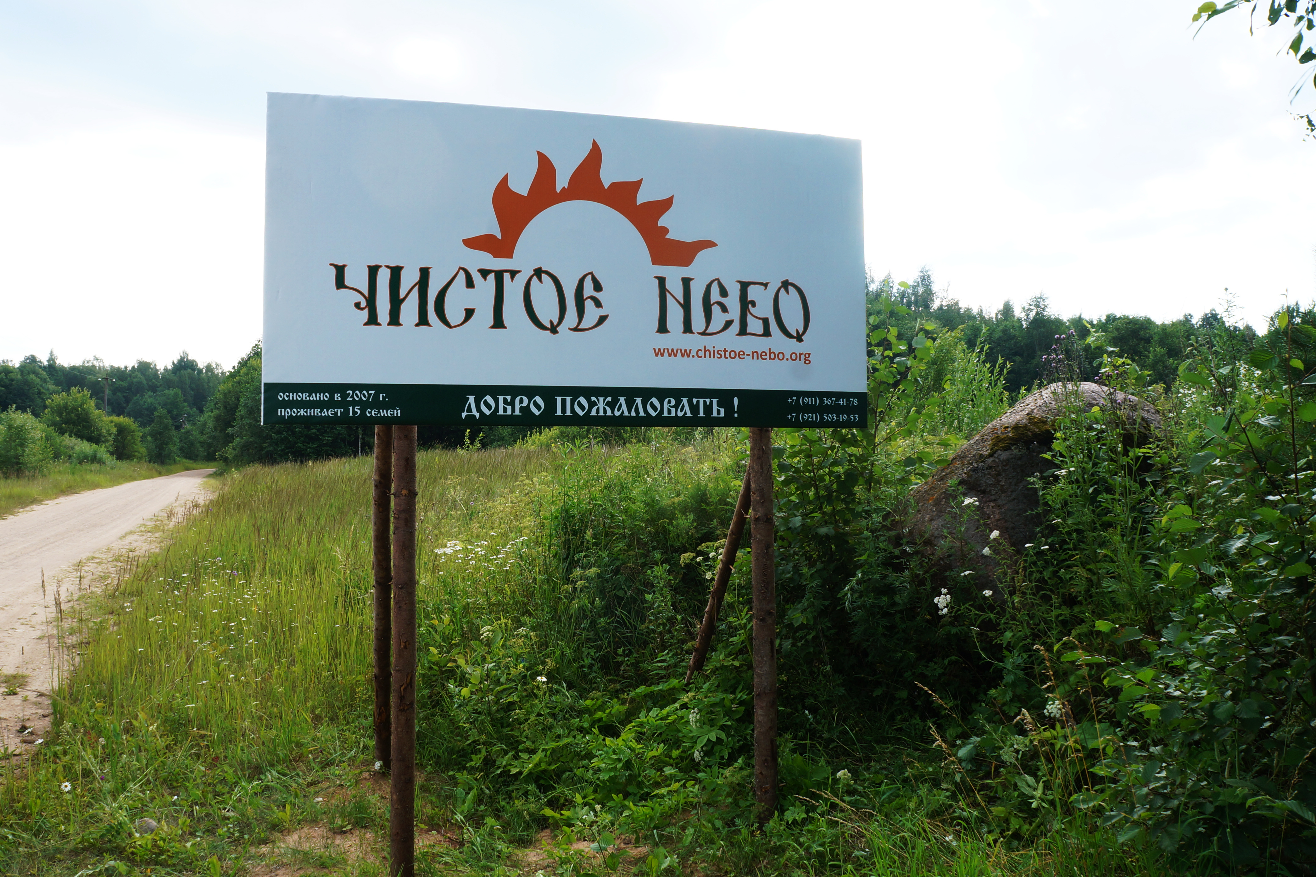 Welcome sign in Chistoe nebo, an ecovillage.